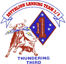 Old 3rd Battalion 1st Marines Insignia